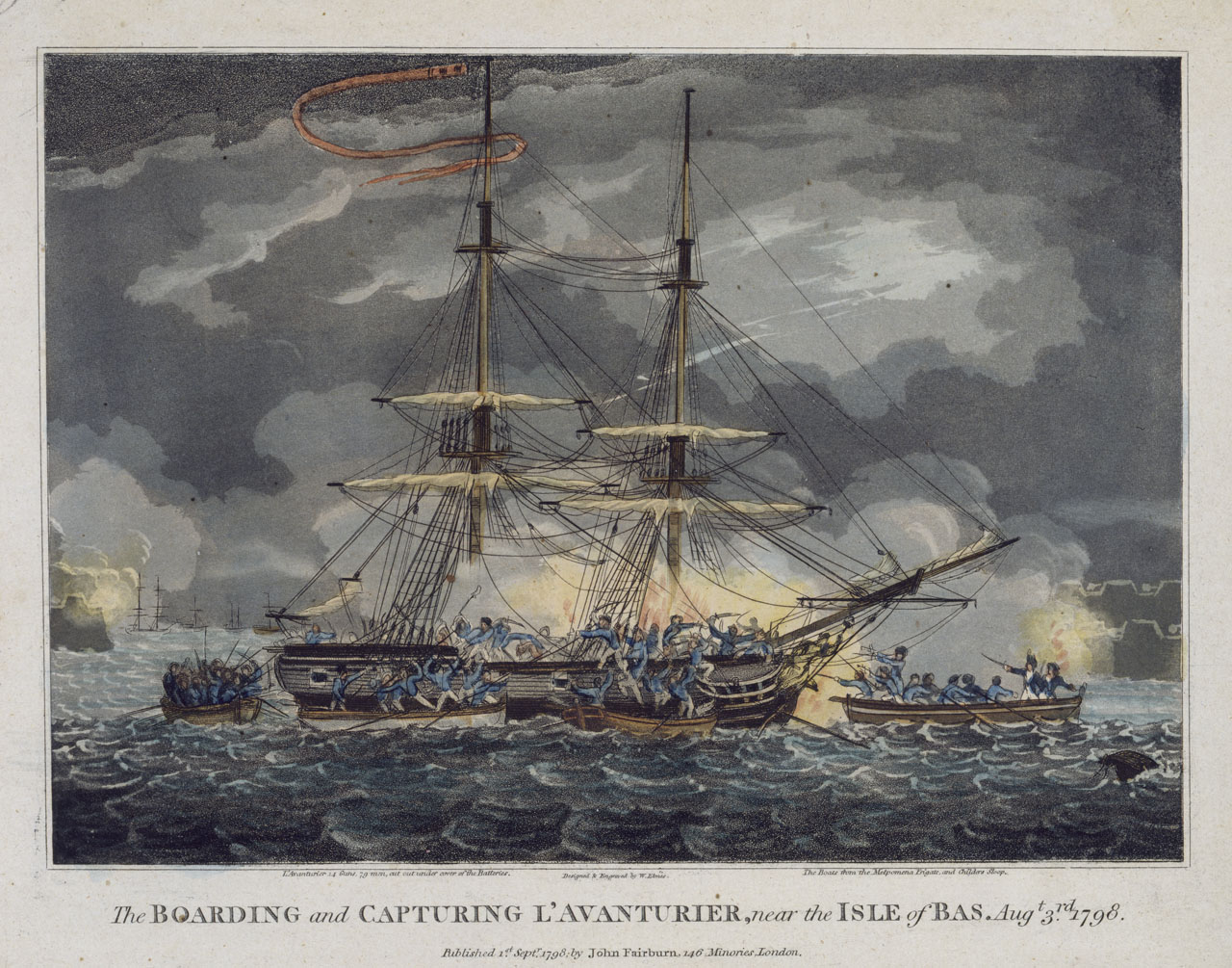 Coloured acquatint